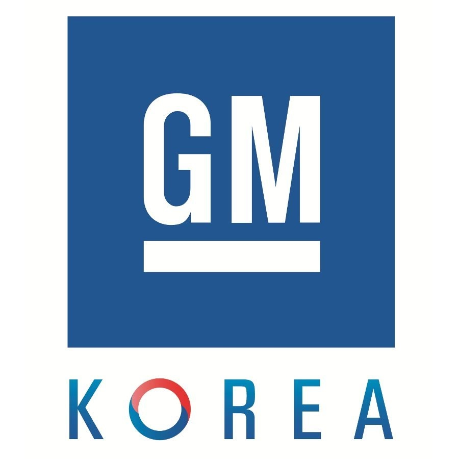 gm korea logo